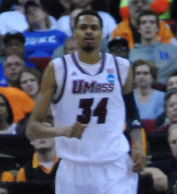 Darius Thompson brings the ball into the paint for the Vols.